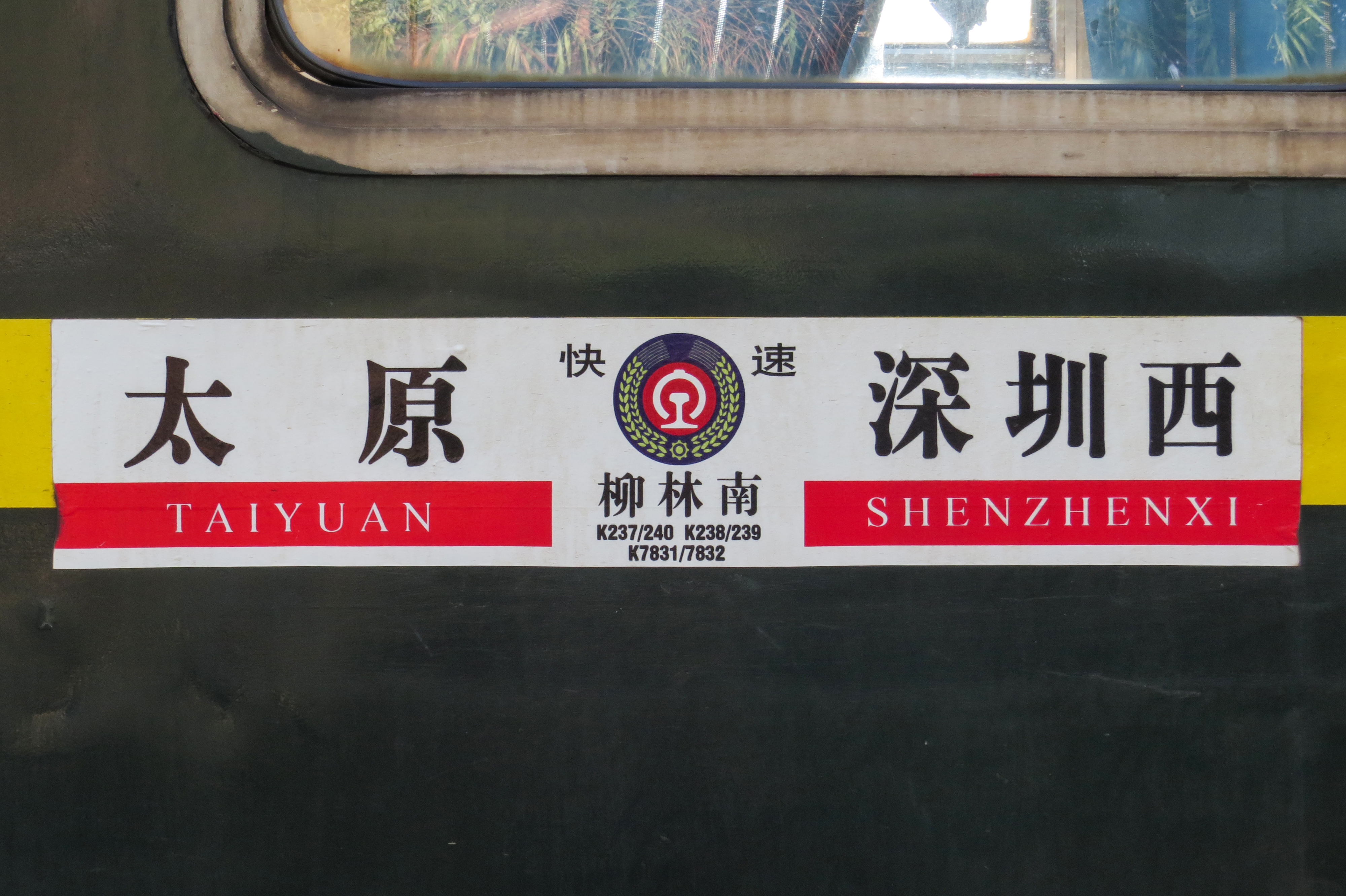 This train has English announcements... but T7 doesn't.